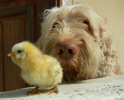 Spinone with control, looking at a chicken (Faverolle)